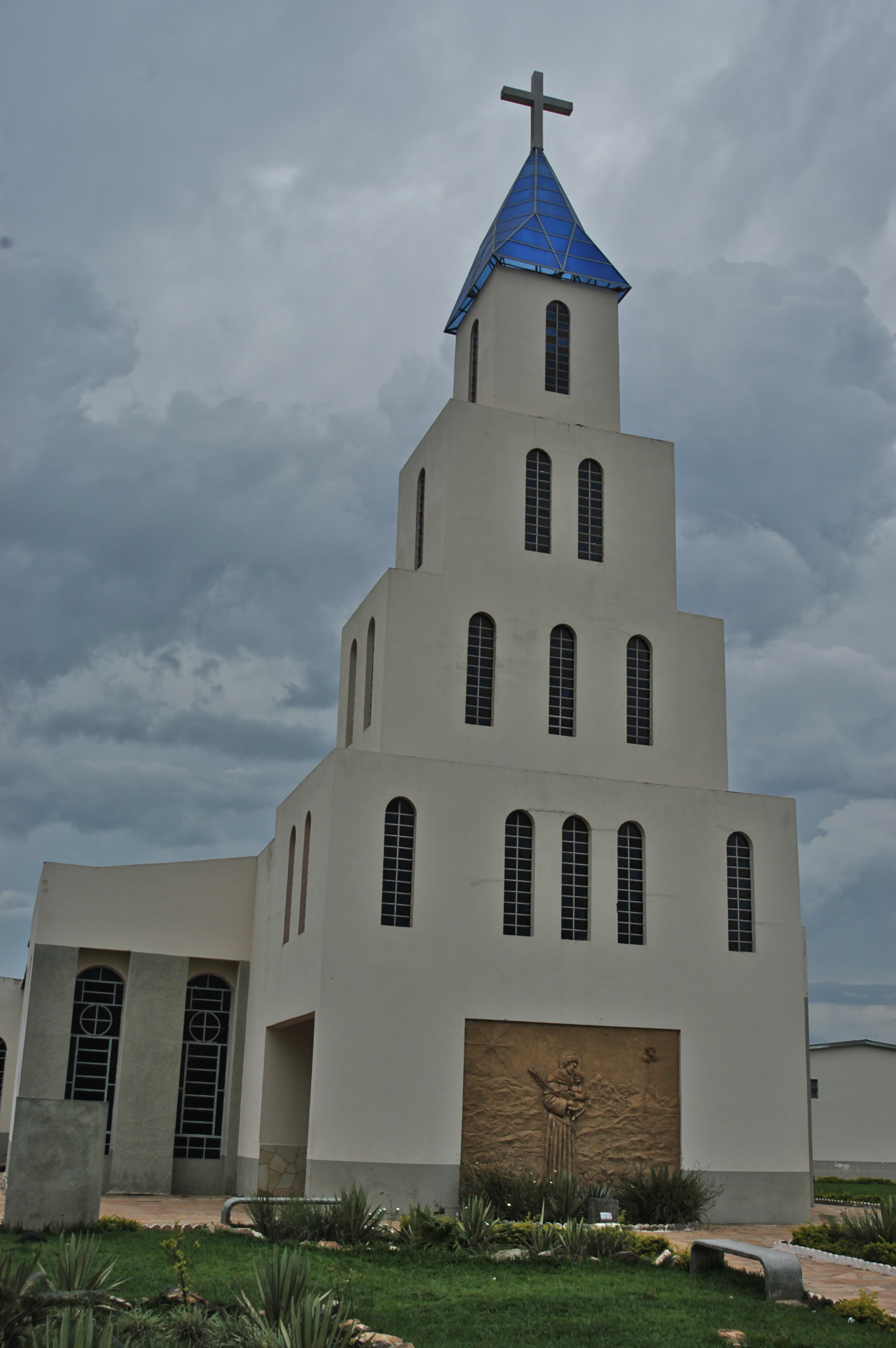 Cocalsinho de goiás city church